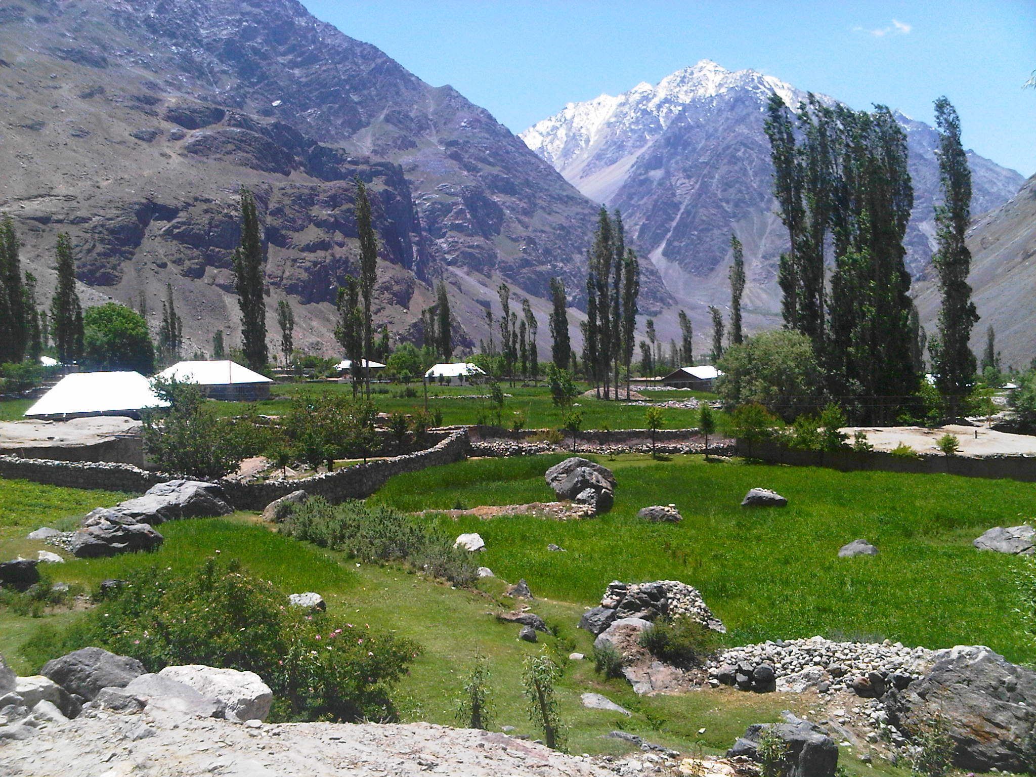 on my way to Shandur from Chitral (KP)